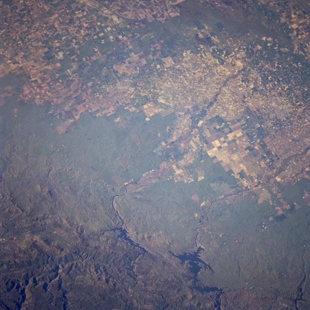 NASA image on the New Don Pedro reservoir (bottom) and San Joaquin Valley (top).